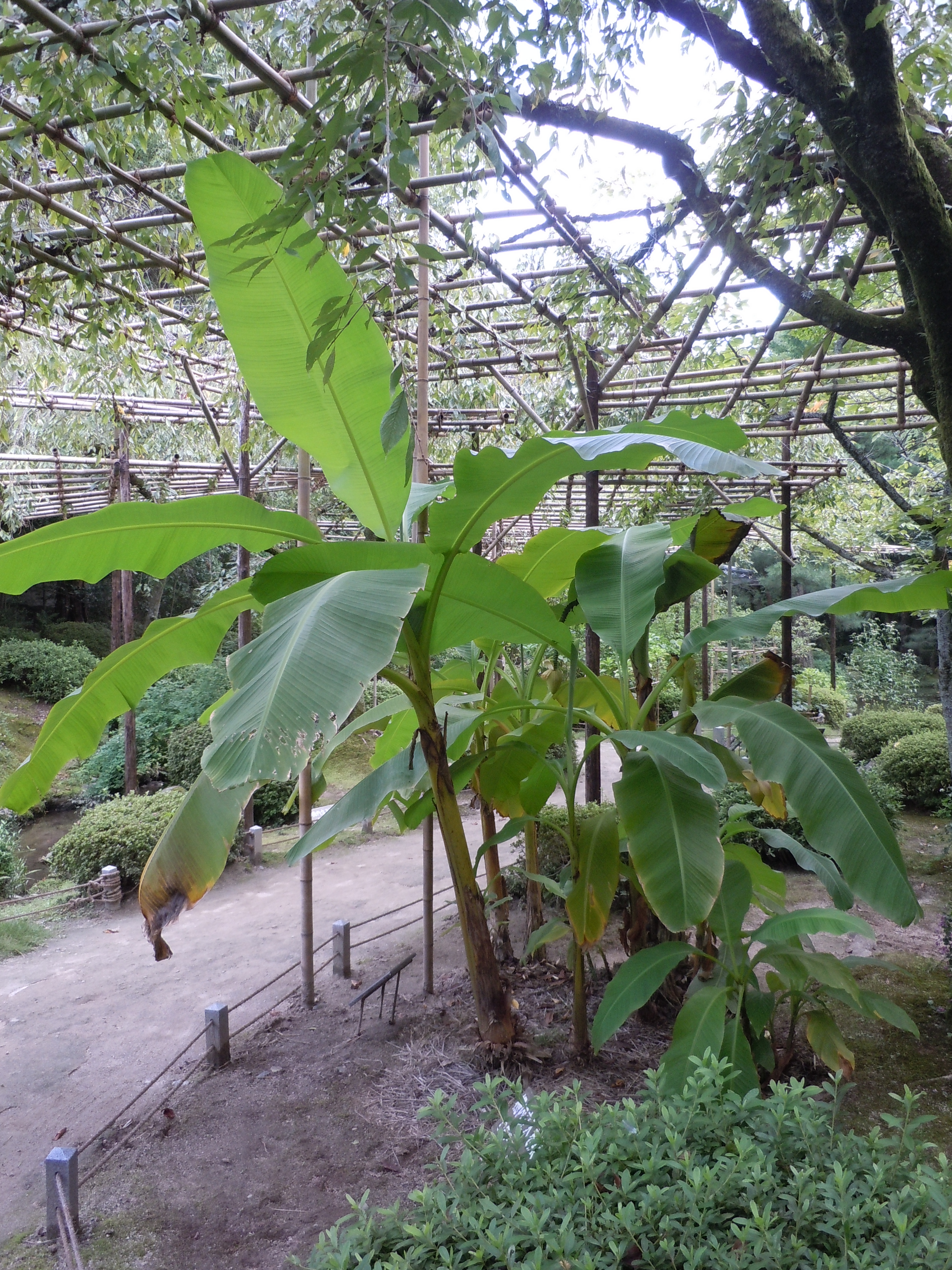 Musa basjoo in Heian Shrine.